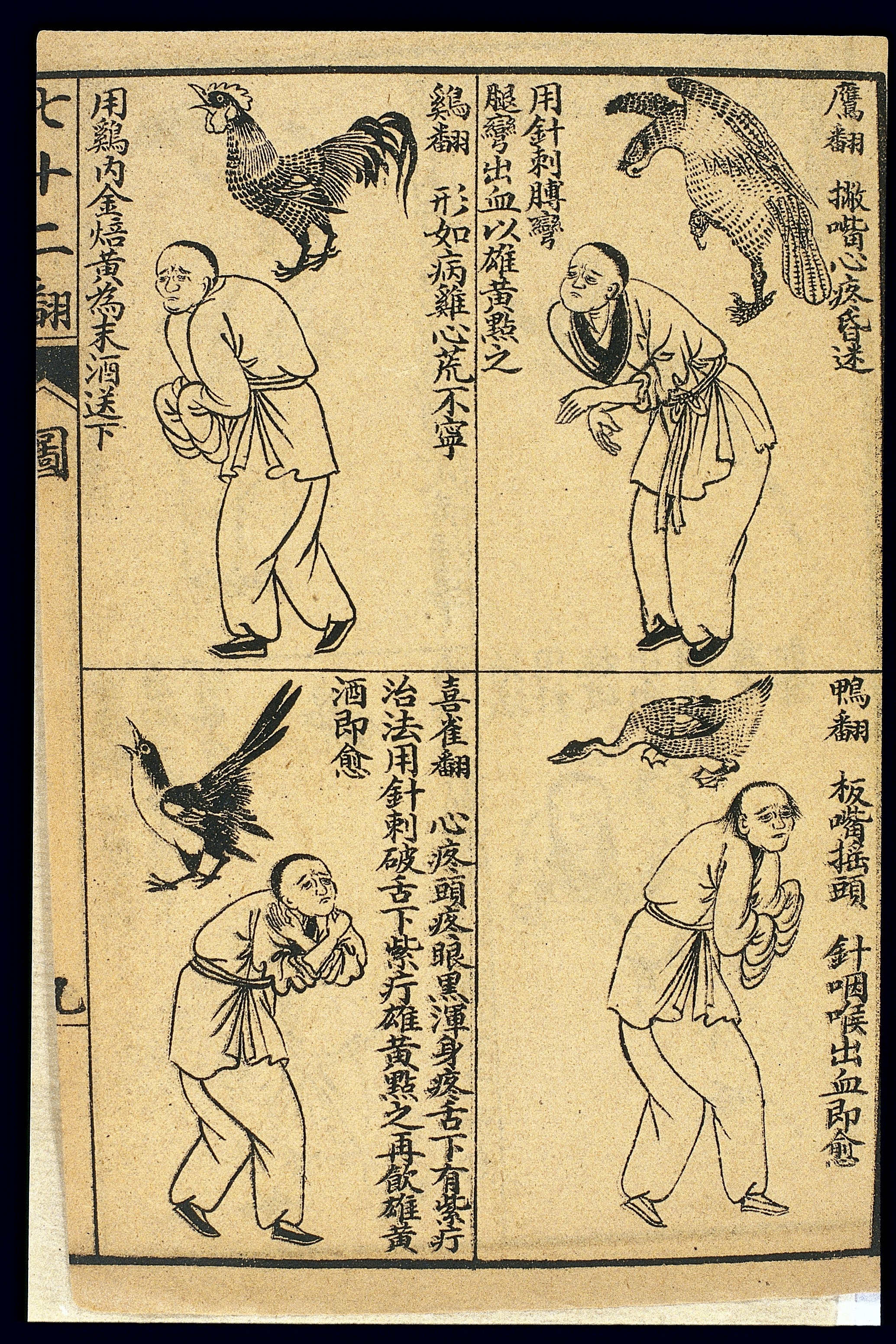 Huitu zhenjiu yixue(Illustrated Acupuncture Made Easy), by Li Shouxian, was composed in 1798 (3rd year of the Jiaqing reign period of the Qing dynasty). It comprises two volumes (juan), plus a supplementary volume containing illustrations of the 'Seventy-twofan'.The 'Seventy-twofan' are not mentioned in any other early Chinese medical sources. Judging from the accounts given in this text,fanmust be a generic term for a category of acute illness of unexplained origin. The wordfanis qualified by names of animals and insects to characterise the external manifestations of these illnesses.This illustration shows the manifestations of Eaglefan, Chickenfan, Duckfanand Magpiefan.According to the captions, the signs of these conditions are as follows:In Eaglefan, the patient grimaces, suffers from heart pain, and loses consciousness. This can be treated by needling the joints of the arms and legs so as to draw blood, and then applying realgar (xionghuang) powder.In Chickenfan, the patient behaves like a sick chicken, and is agitated and restless and suffers from palpitations. The treatment for this is to administer chicken's gizzard membrane (jineijin) baked till brown and powdered, washed down with liquor.In Duckfan, the patient tenses the mouth and shakes the head. This is treated by needling the throat so as to draw blood.In Magpiefan, the patient has aches and pains in the head and body; the eyes are dim and the heart is painful; and purple boils appear under the tongue. This is treated by lancing the boils with a needle and applying realgar powder, and then administering a draught of realgar powder in liquor. Woodcut